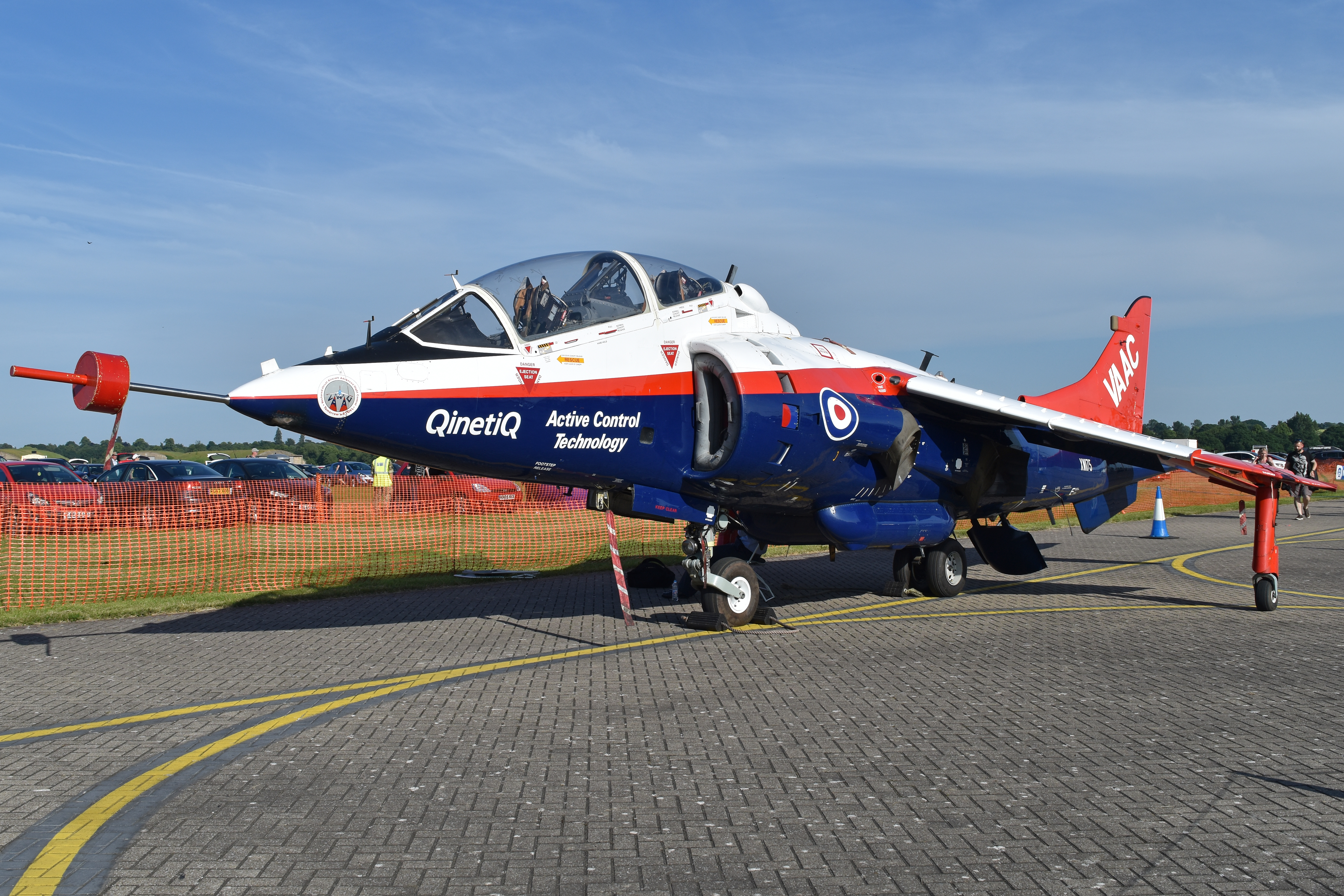 c/n 212002. Built 1969. XW175 spent her entire career as a test aircraft and was fundamental in the development of Vectored thrust Aircraft Advanced Control, or ‘VAAC’ for short. Retired in 2010, she is believed to eventually be destined for the RAF Museum, although she currently remains safely stored with the Defence School of Aeronautical Engineering (DSAE). Seen on static display at the 2018 Cosford Airshow. RAF Cosford, Shropshire, UK. 10th June 2018.